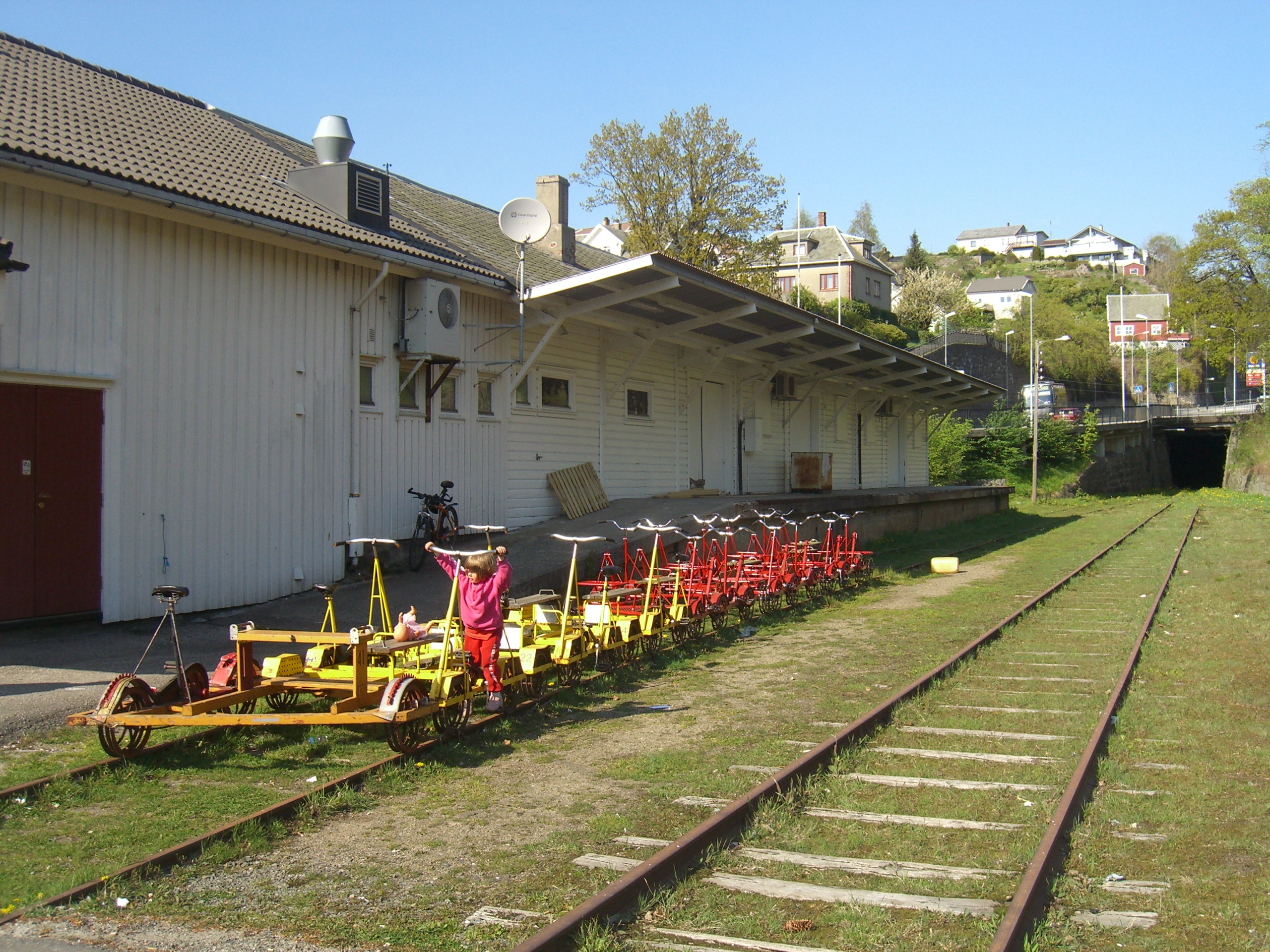 No trains here for many years, but you can drive the manpowered dresins on the track. The track from Sira to Flekkefjord (17km) was opened in 1904, and the last train went here in 1990. The beautiful Jugend station building is no more.